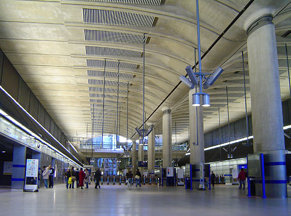 London Underground, station Canary (Jubilee Line)